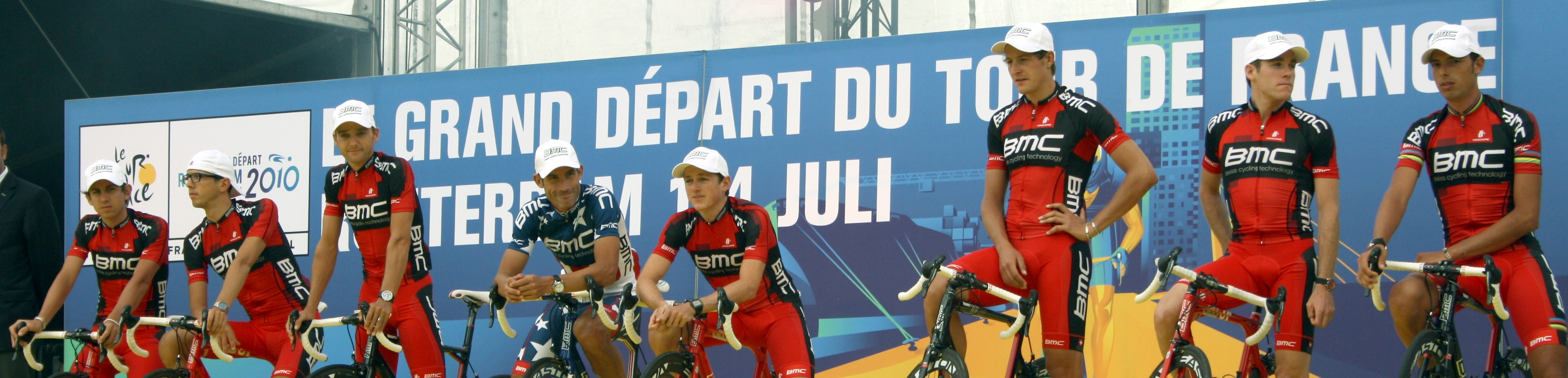 BMC at the the team presentation of the 2010 Tour de France in Rotterdam